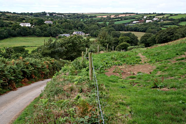 The Fal Valley by Trelion. This is a green and pleasant part of the valley now, but it used to be a mining area.